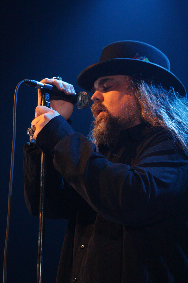 Shawn Smith of the band Brad live at Gramercy Theater in New York 2012